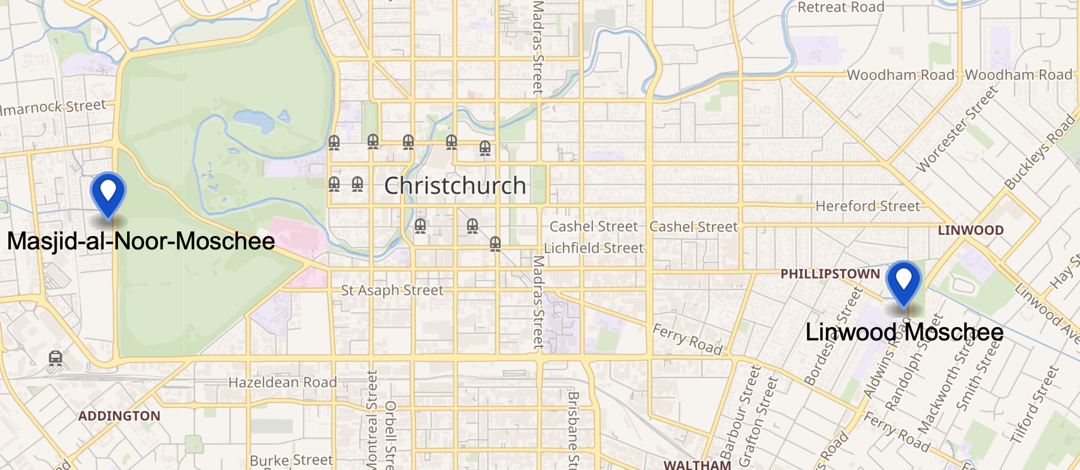 Location of the Christchurch mosques involved in the terrorist attack on March 2019